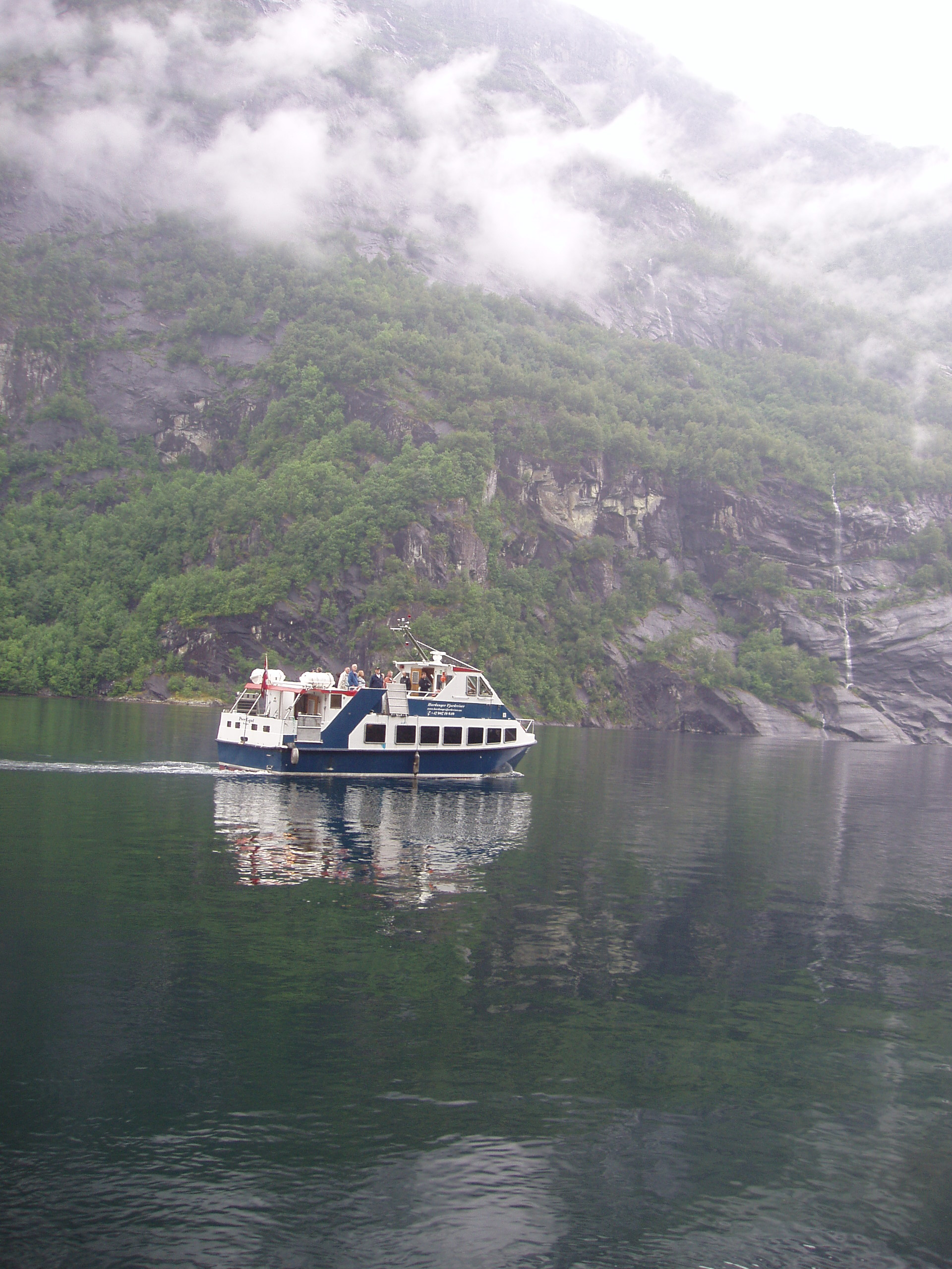 Peer Gynt on the Fyksesund